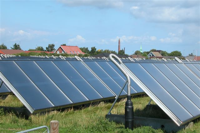 Solarheatings park, Marstal